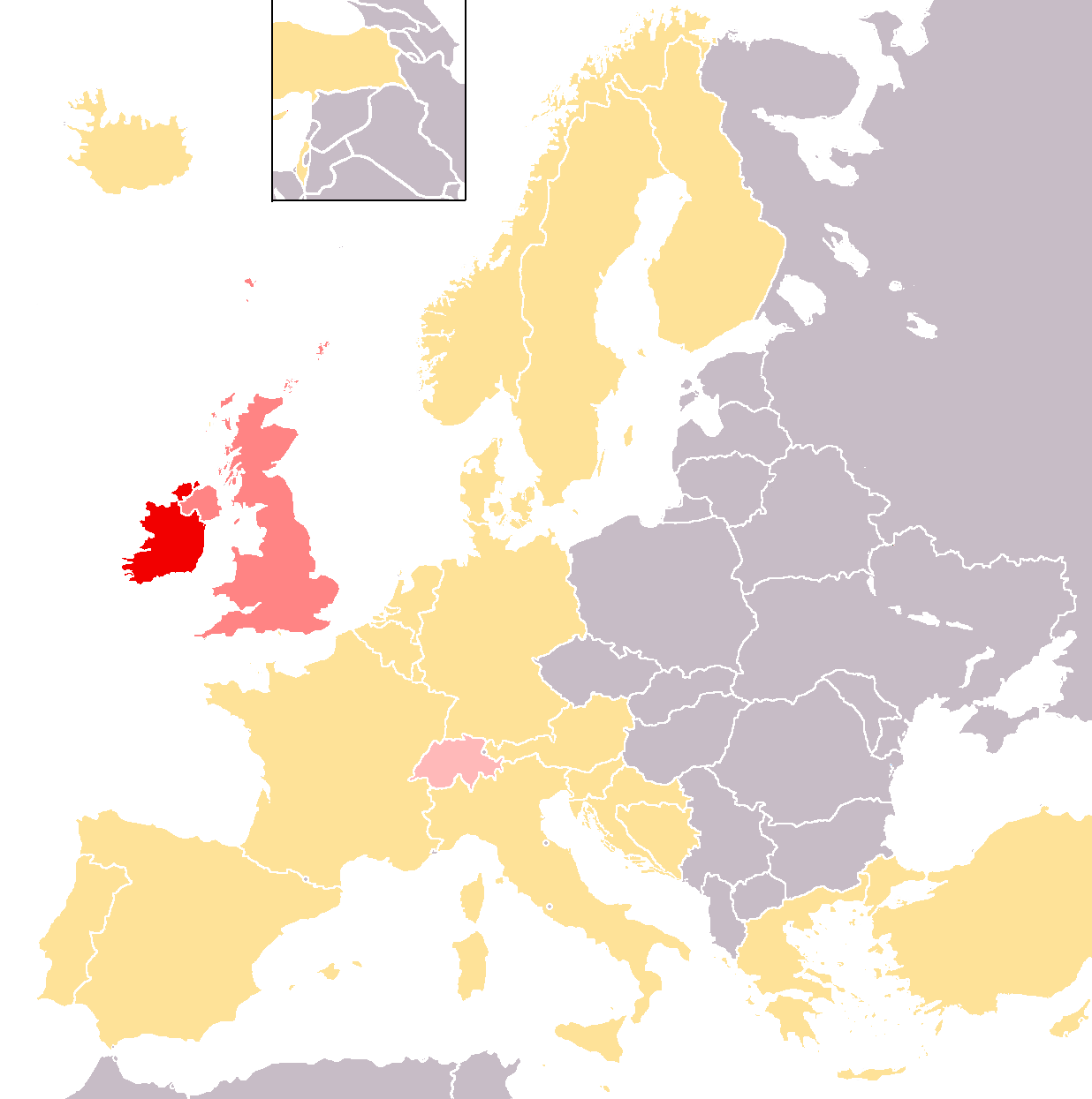 Map of Eurovision 1993